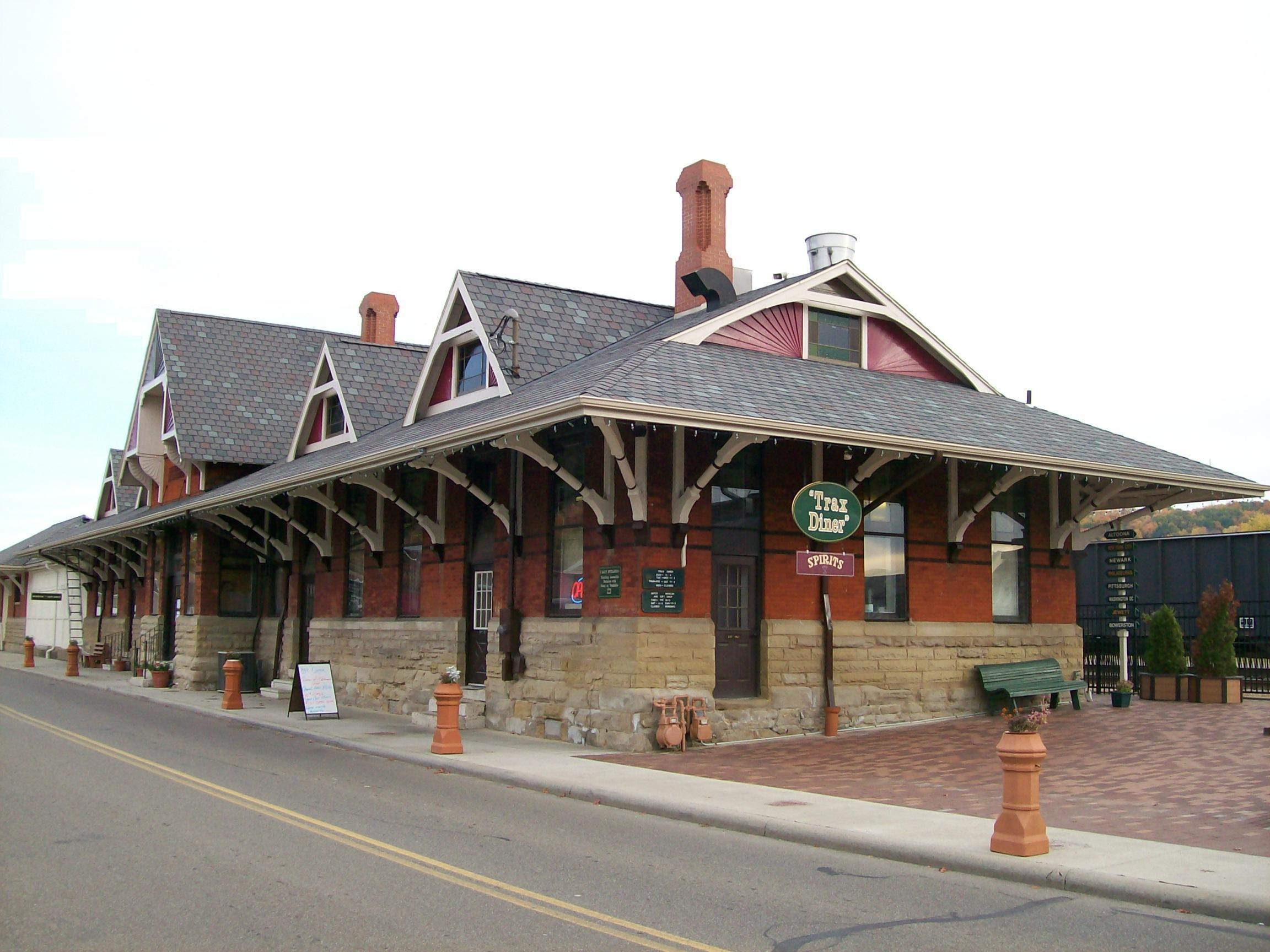 The Pennsylvania Railroad Depot and Baggage Room also known as the Dennison Depot in Dennison, Ohio.